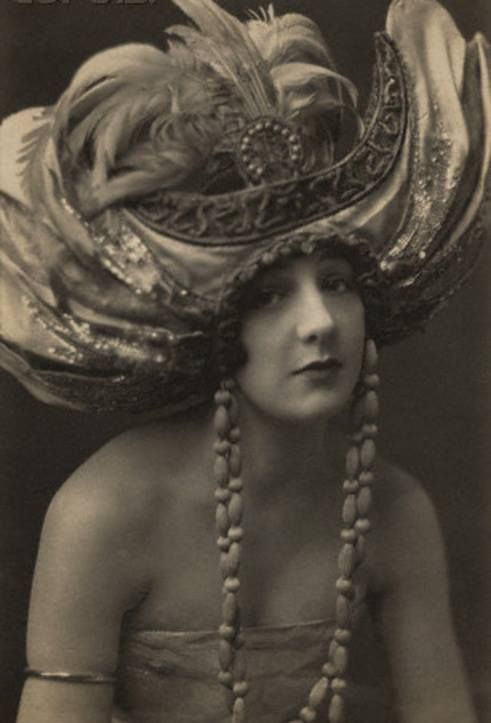 Elsa von Freytag-Loringhoven (1874-1927), German-born Dadaist artist and poet.